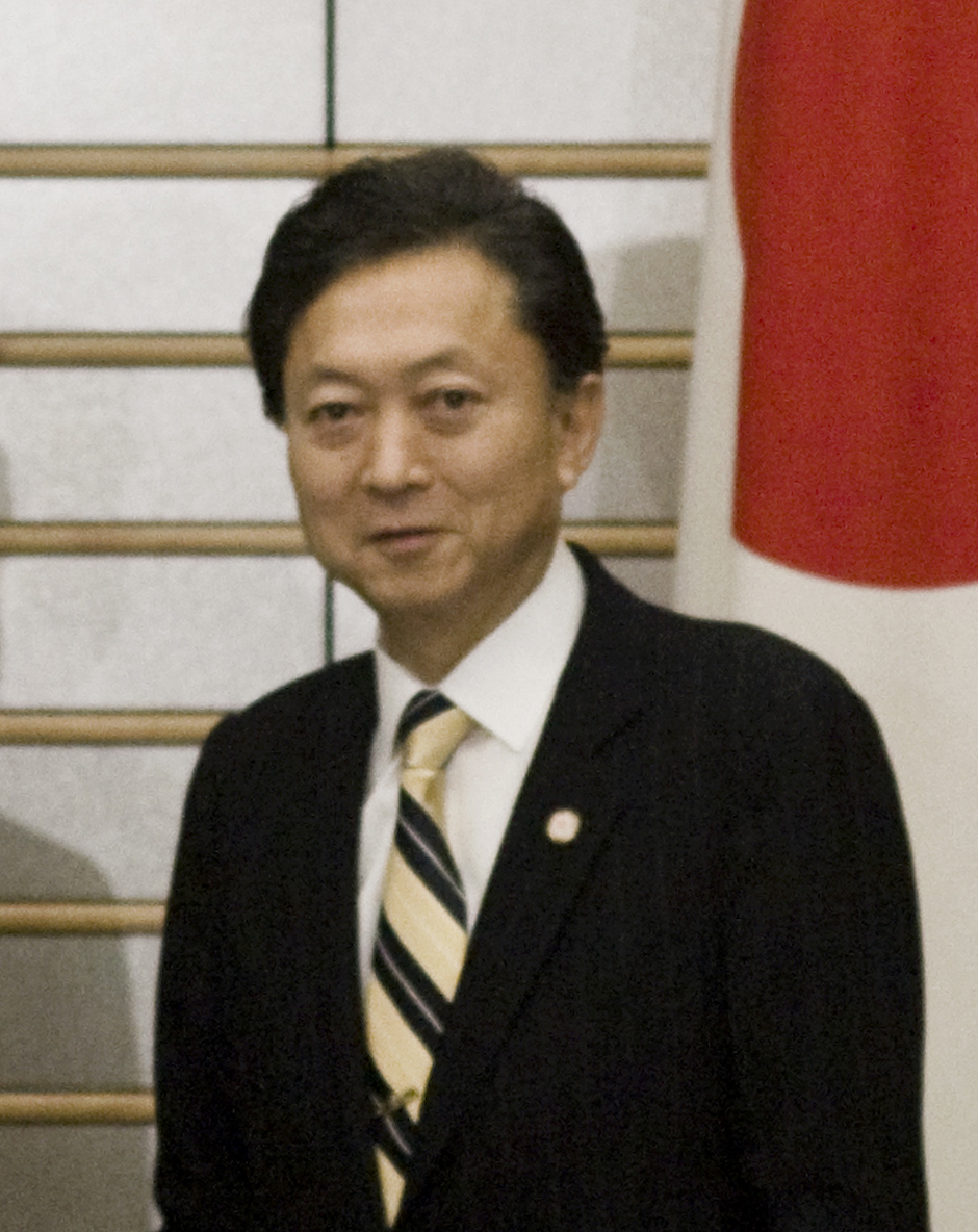 Abhisit Vejjajiva, Prime Minister, shaked hands with Yukio Hatoyama, Prime Minister, at the Kantei in Chiyoda Ward, Tōkyō Metropolis on November 8, 2009.